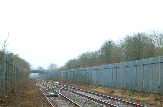 This siding near Rugby is all that remains of the Rugby to Leamington railway line which closed in 1985